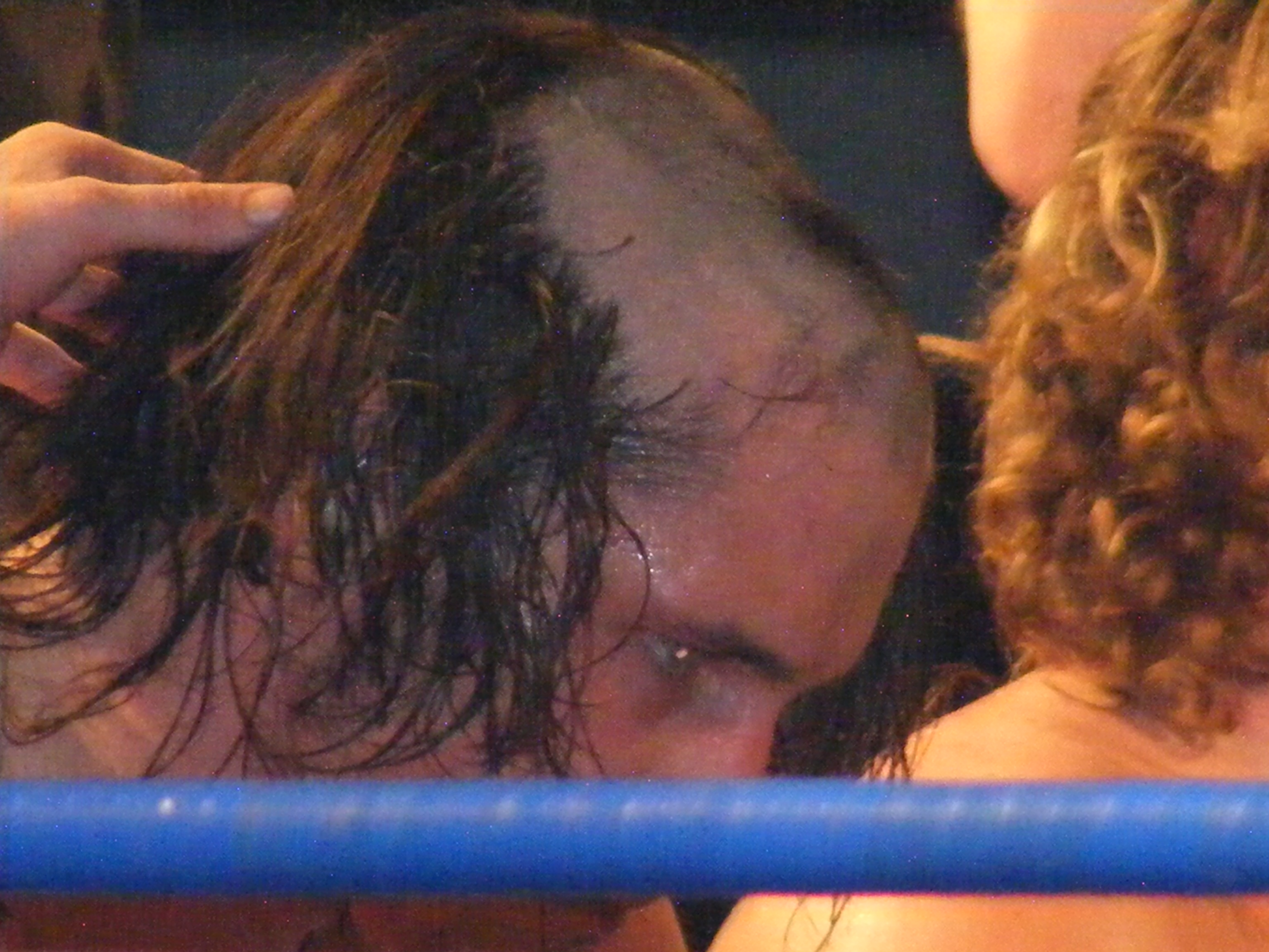 Professional wrestler Chuck Taylor having his head shaved in the Chikara wrestling promotion, after losing a Luchas de Apuestas match on May 24, 2009